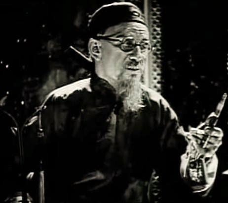 E. Alyn Warren in the film Outside the Law - cropped screenshot.